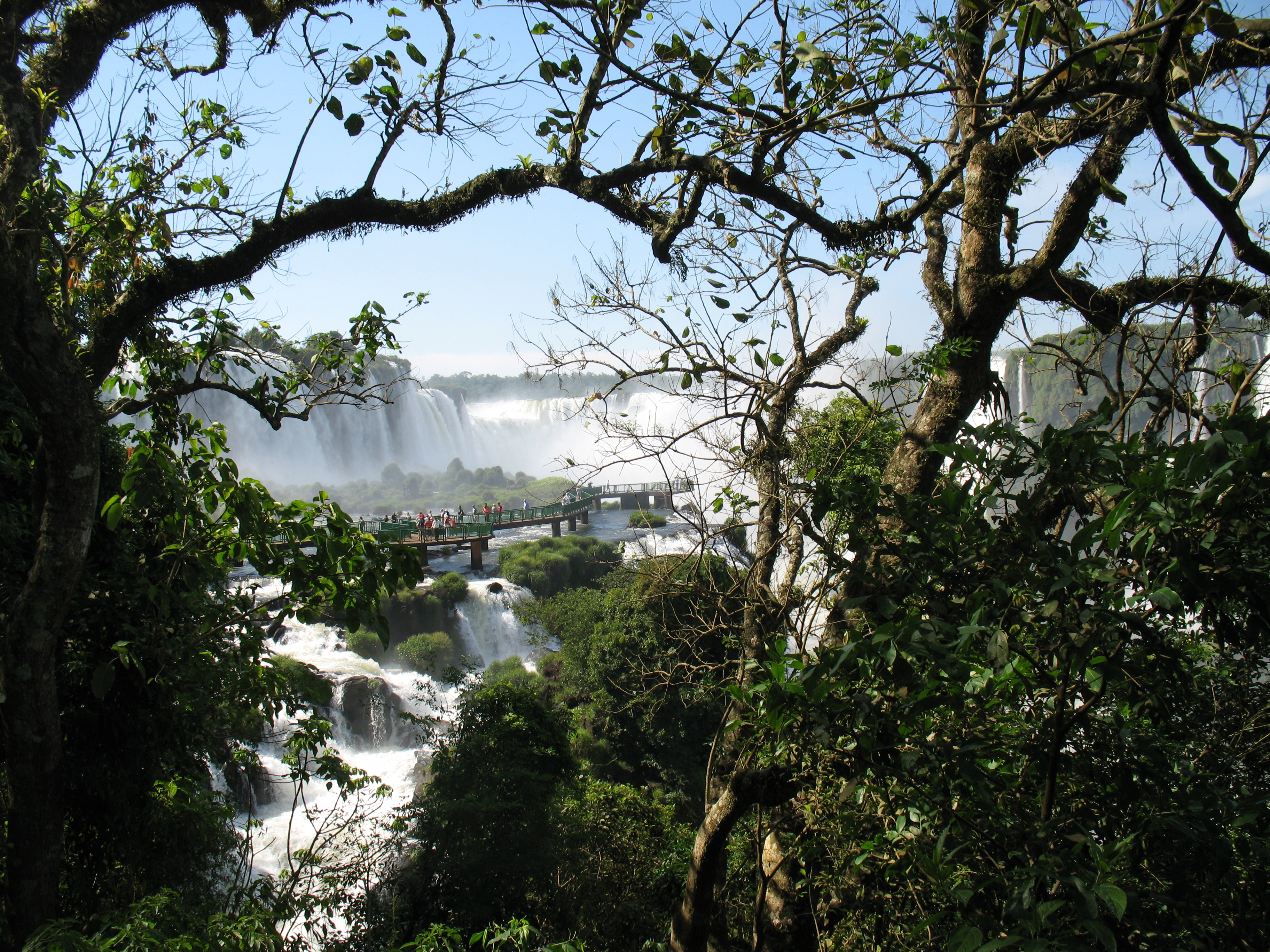 Iguazu Falls, view from the Brazilian side